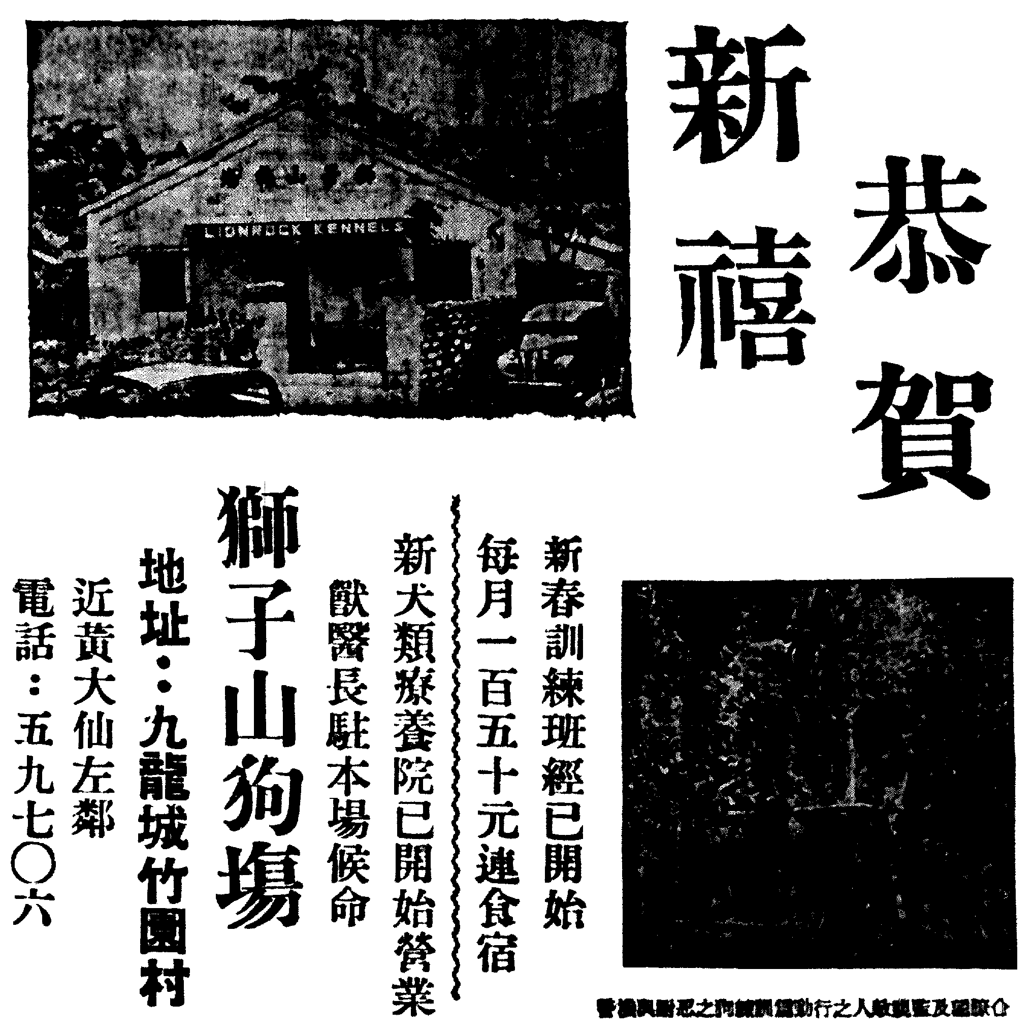 Advertisement of Lionrock Kennels, Hong Kong 中文（香港）: 香港，獅子山狗場的廣告